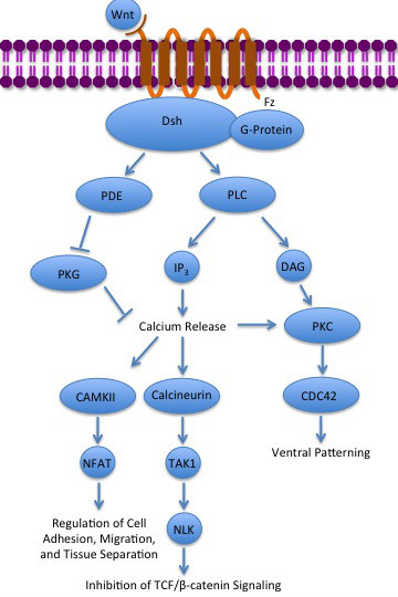 Diagram of the noncanonical Wnt/calcium pathway.